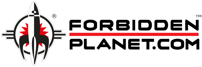 Forbidden Planet logo